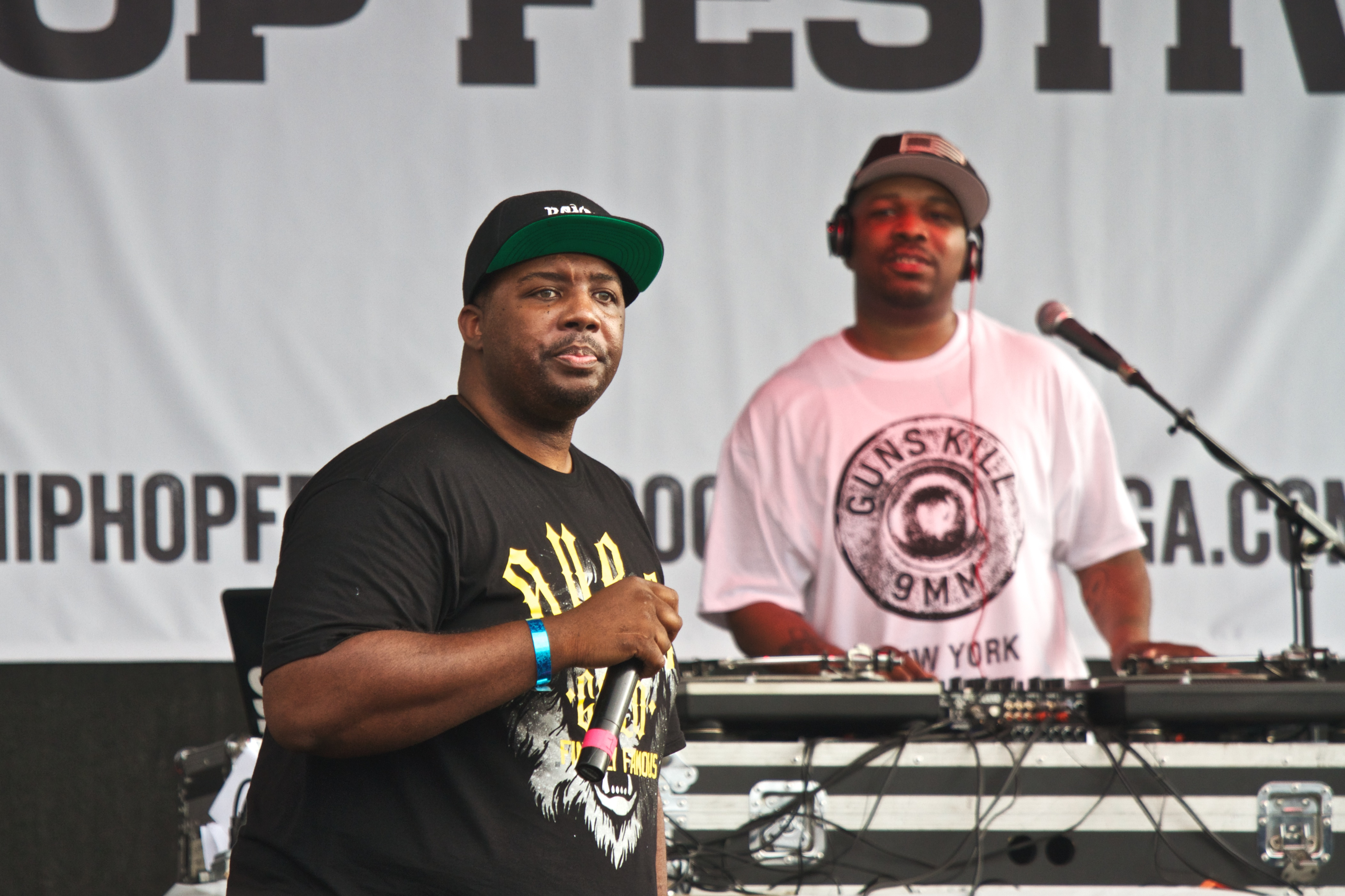 EPMD at Brooklyn Hip-Hop Festival 2013